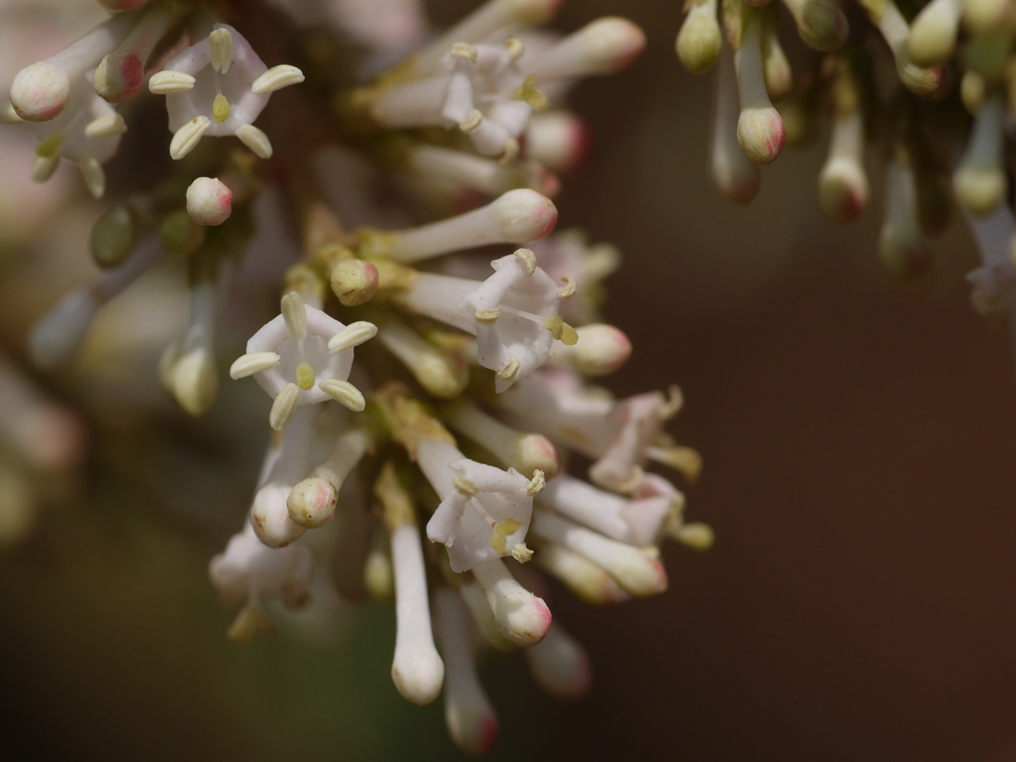 Wendlandia thyrsoidea